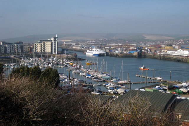 Newhaven Marina and Port A new waterside development sits to the left adjacent the marina, and a Newhaven to Dieppe Catamaran in the centre.